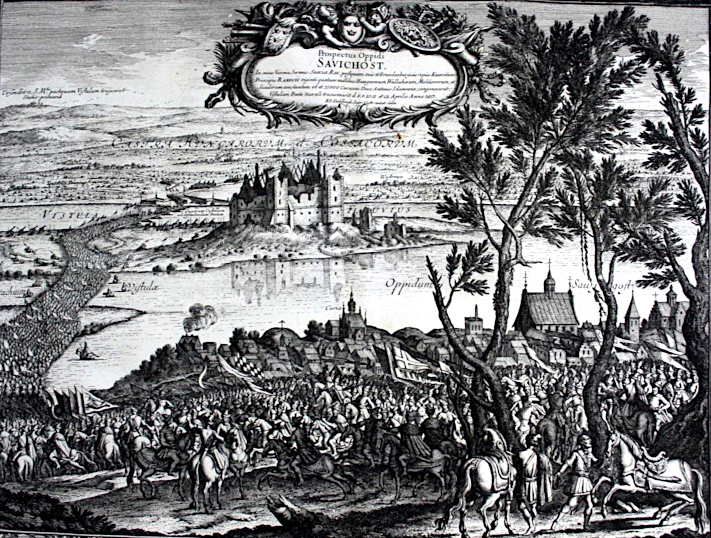 George II Rákóczi seize of Zawichost on the way to Kraków in 1657, see Siege of Kraków (1657).